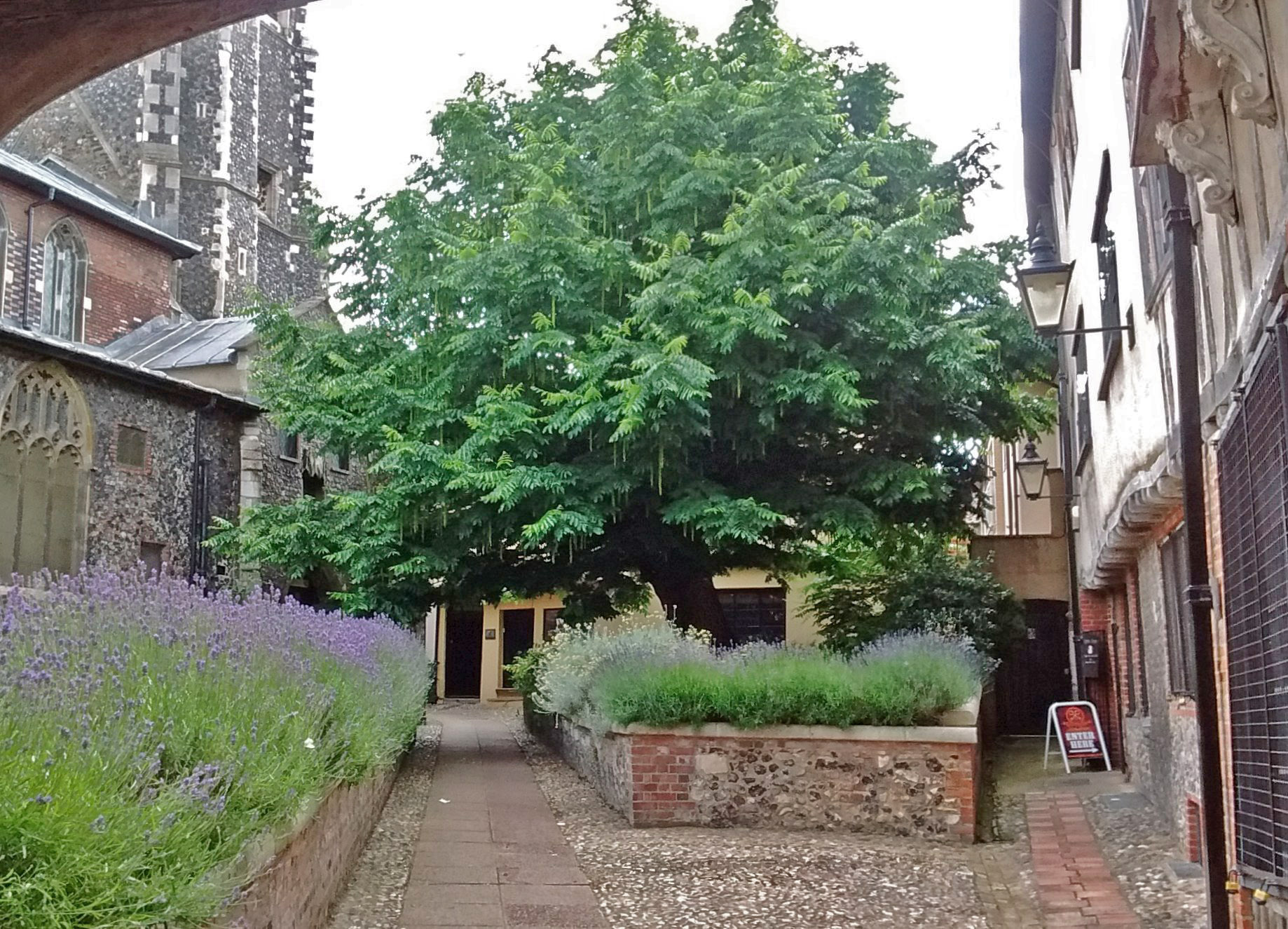 Pterocarya fraxinifolia (Caucasian wingnut) tree in St George's churchyard, Tombland, Norwich, UK